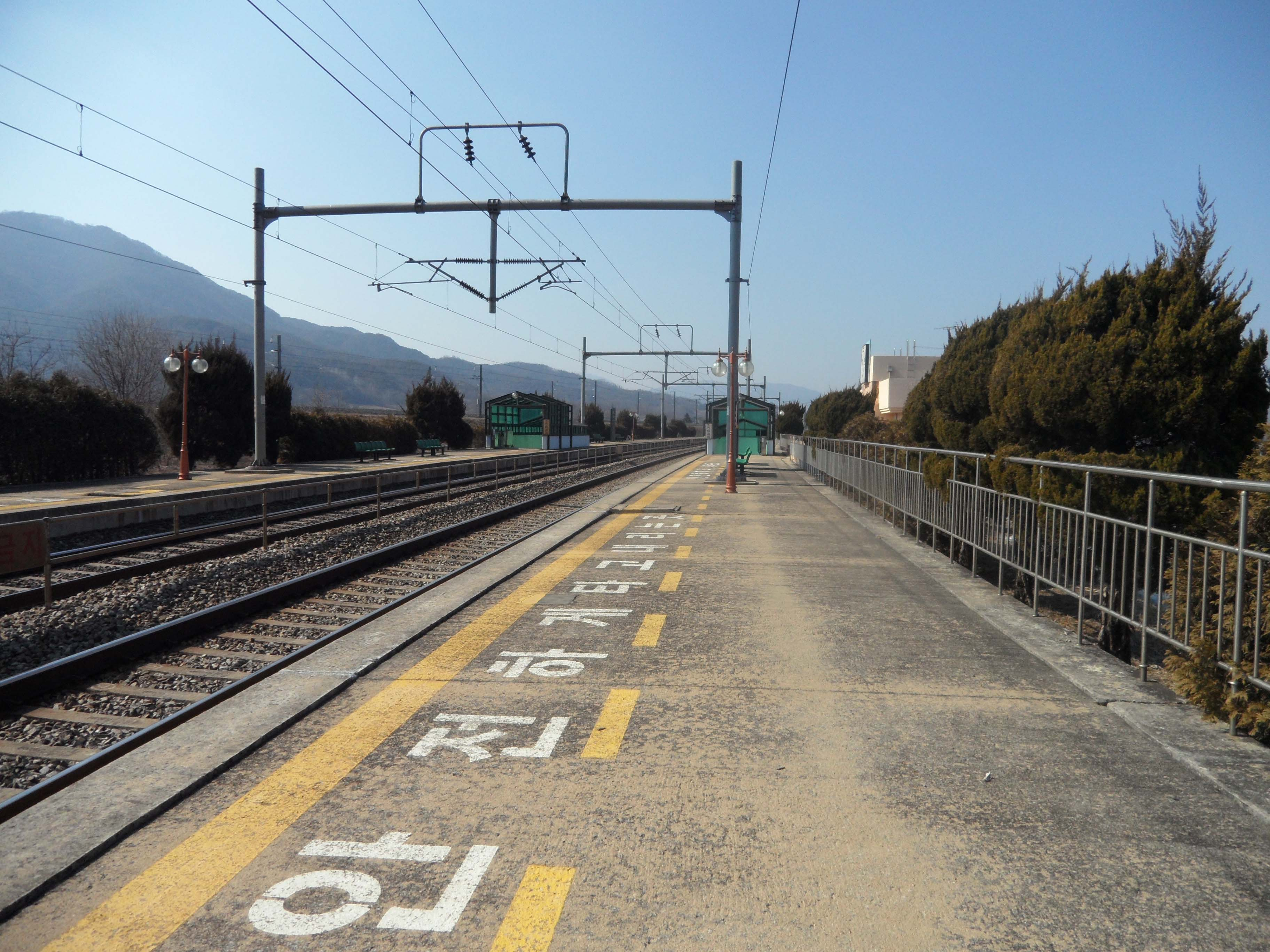 Jitan station's platform